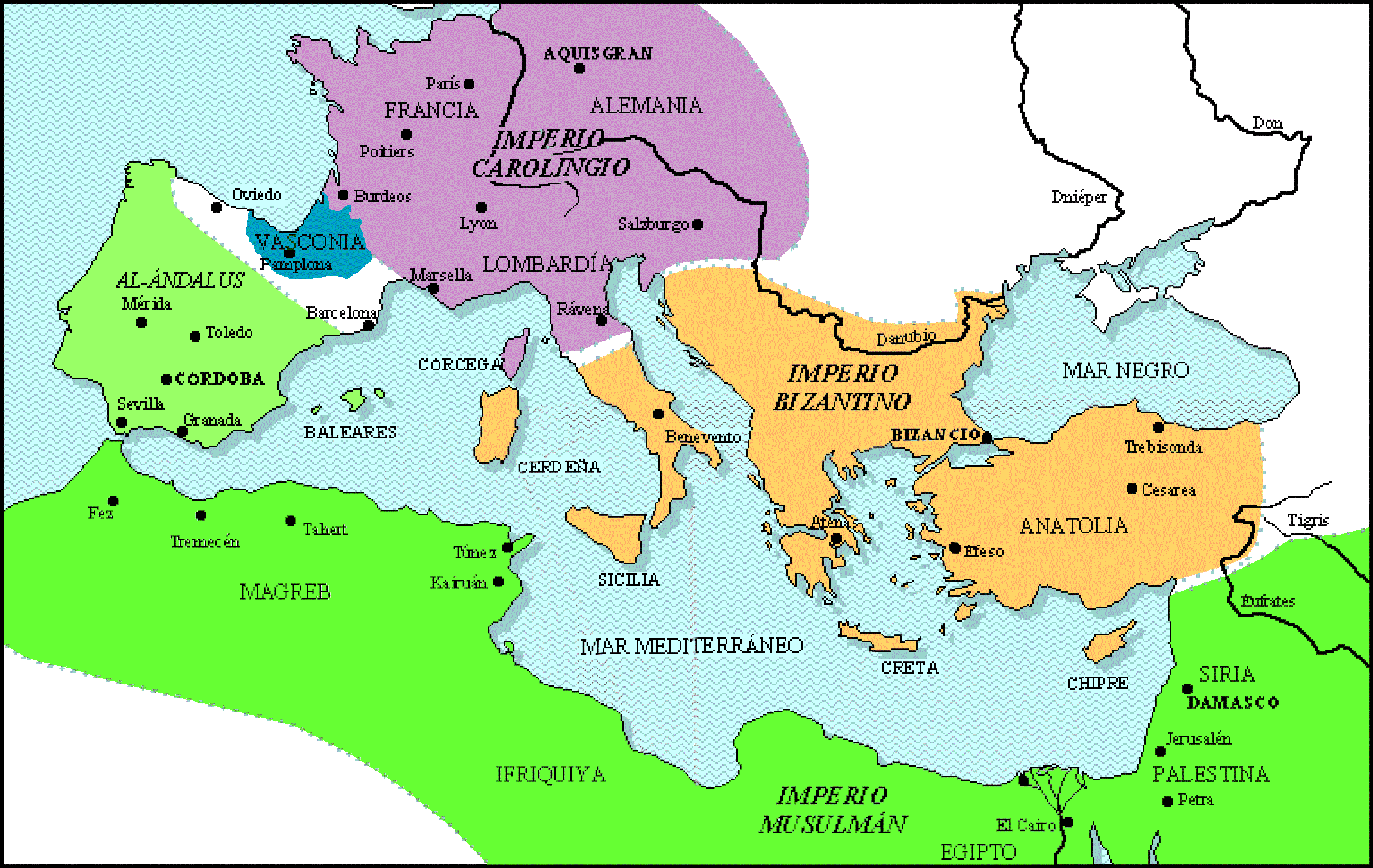 Division of Mediterranean sea in the Upper Middle Age (year 800 AD) Just a clarification - There were only three kingdoms at that time: Carolings, Roman Empire and Bulgarian Kingdom in between. Bulgarian kongdom was situated on the Balkans, South from Danube river (the yellow part), West from Mare Negro, North from Tracia/Adrianopolis